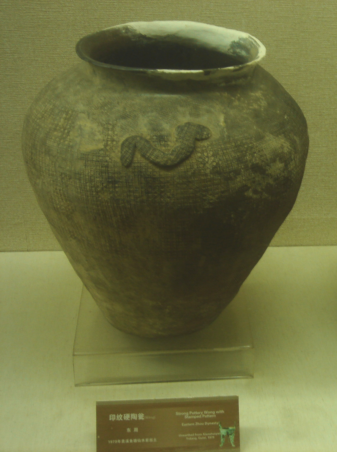 artwork of Zhou dynasty